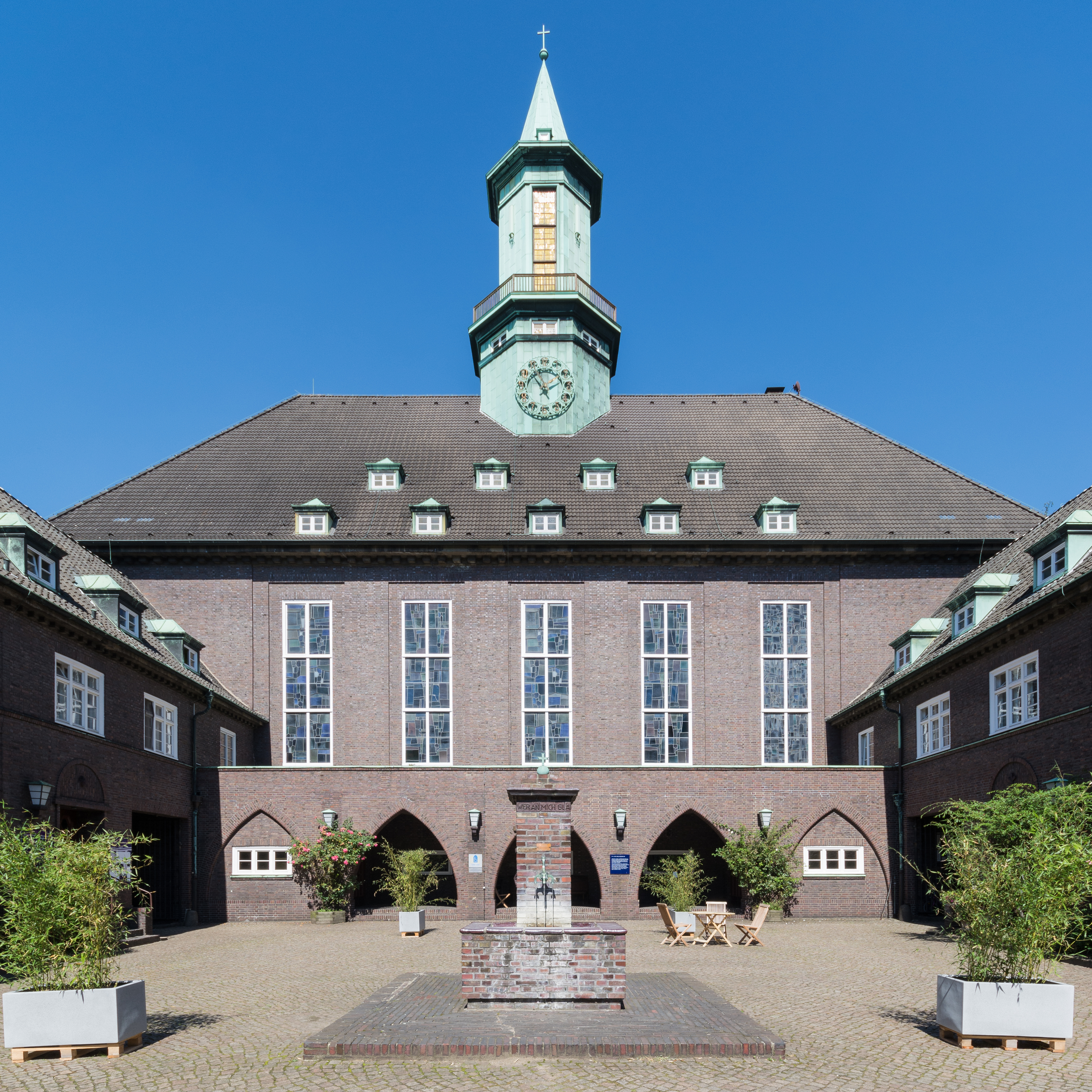 Salvator Church Uhlenhorst in Hamburg. This is a photograph of an architectural monument.